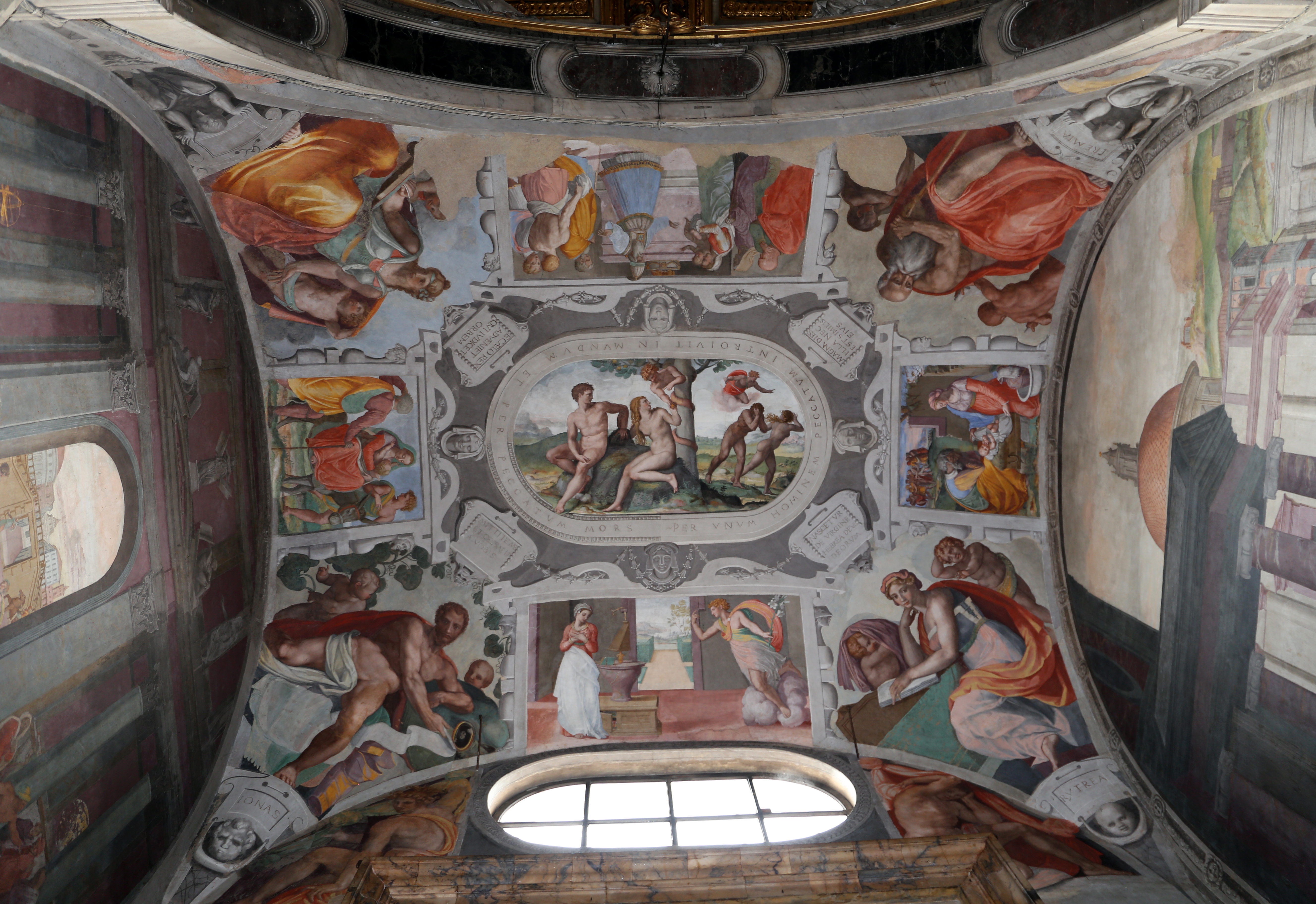 Santissima Annunziata (Florence) - Montauti Chapel - Frescos by Alessandro Allori